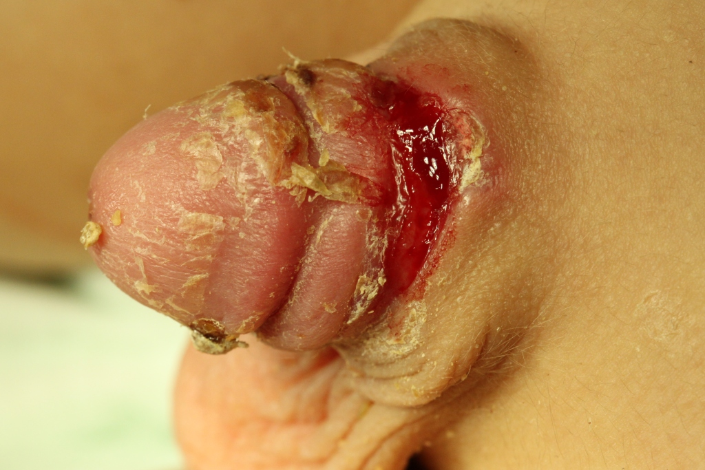 complication, skin nekrosis after a belated circumcision of a paraphimosis, child Unknown